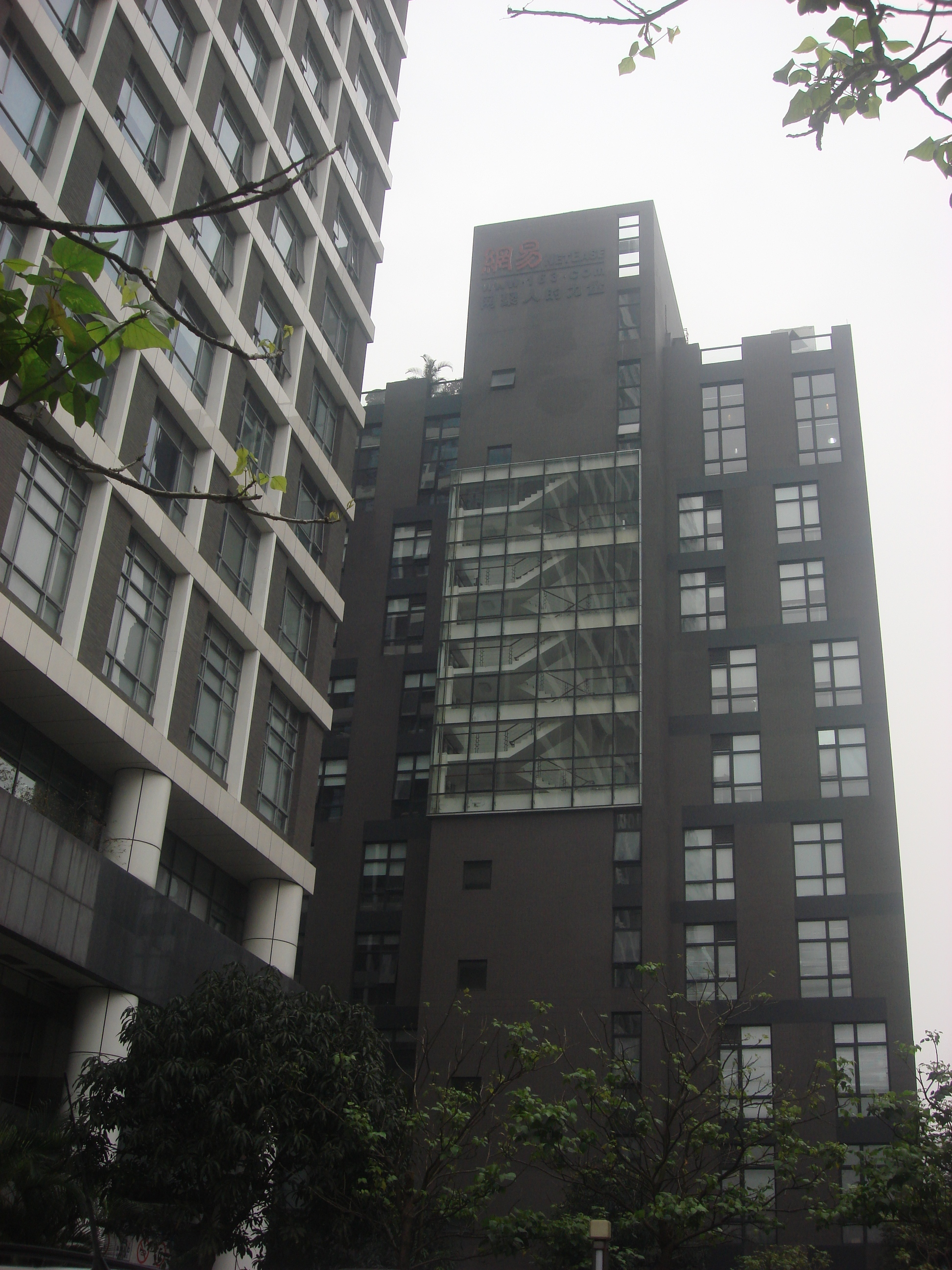 NetEase Building in Canton(Guangzhou), China.